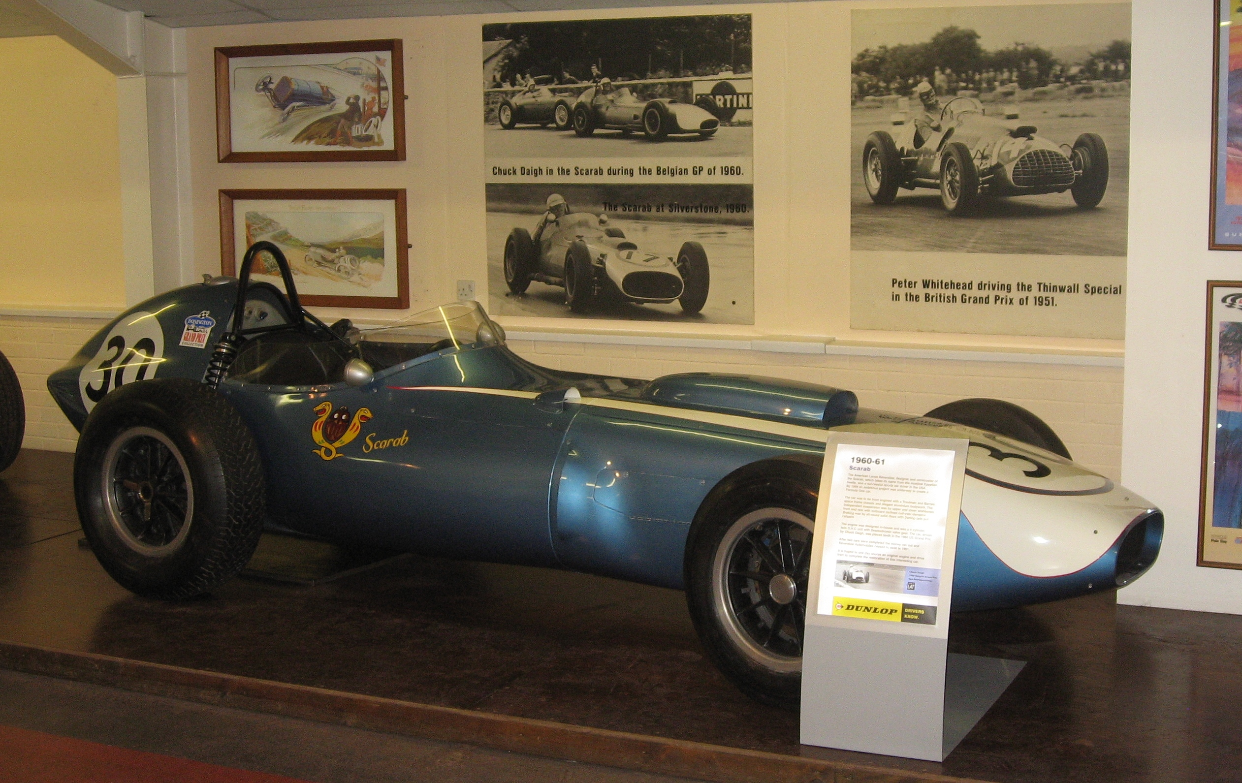 Photo taken by self, Spute. 1960-61 Scarab formula one car, on display at Donington Grand Prix Collection museum.